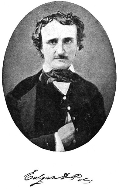 Edgar Allan Poe (photo and signature) - page 8